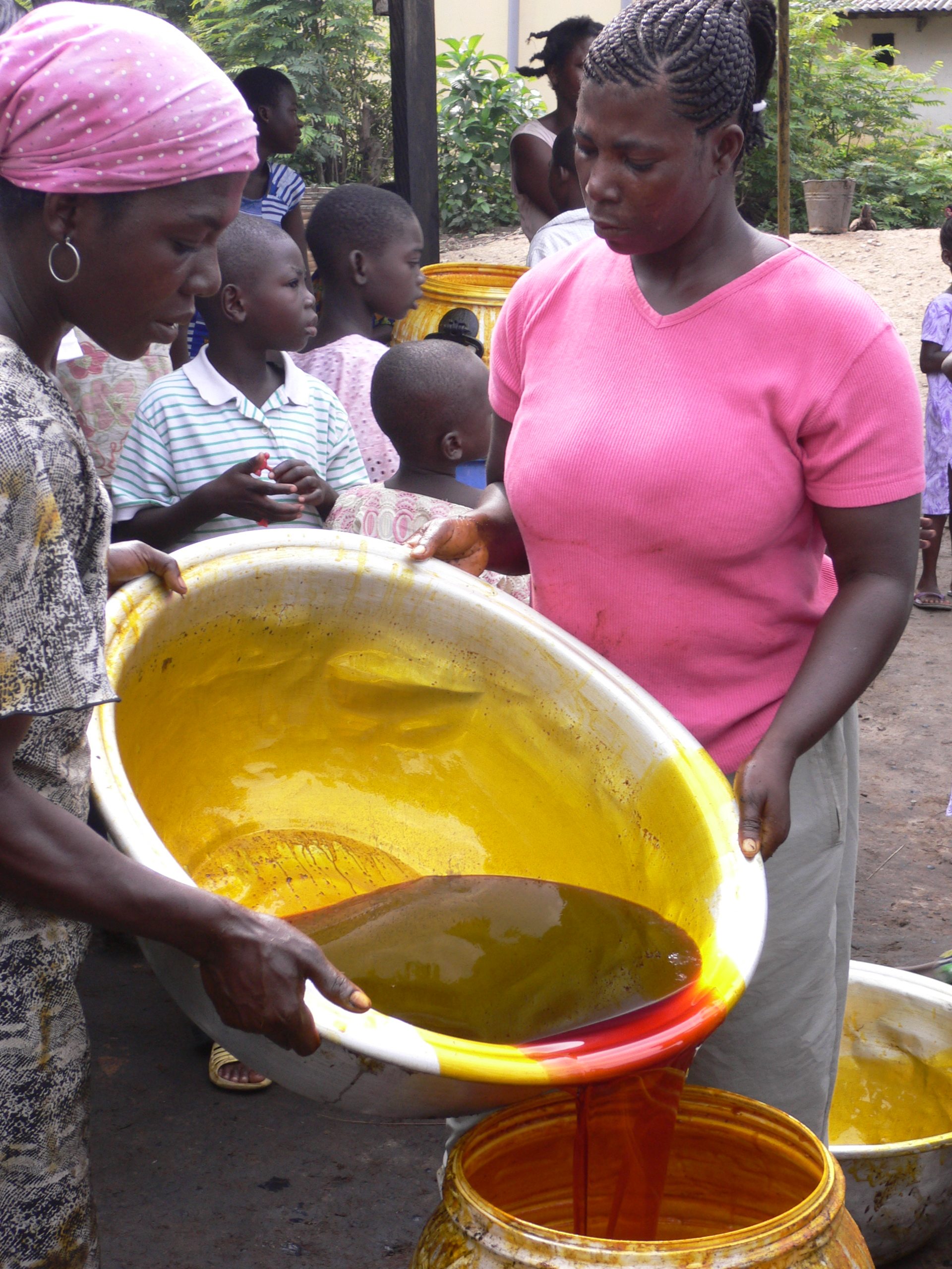 Palm Oil production in rural Jukwa, Ghana